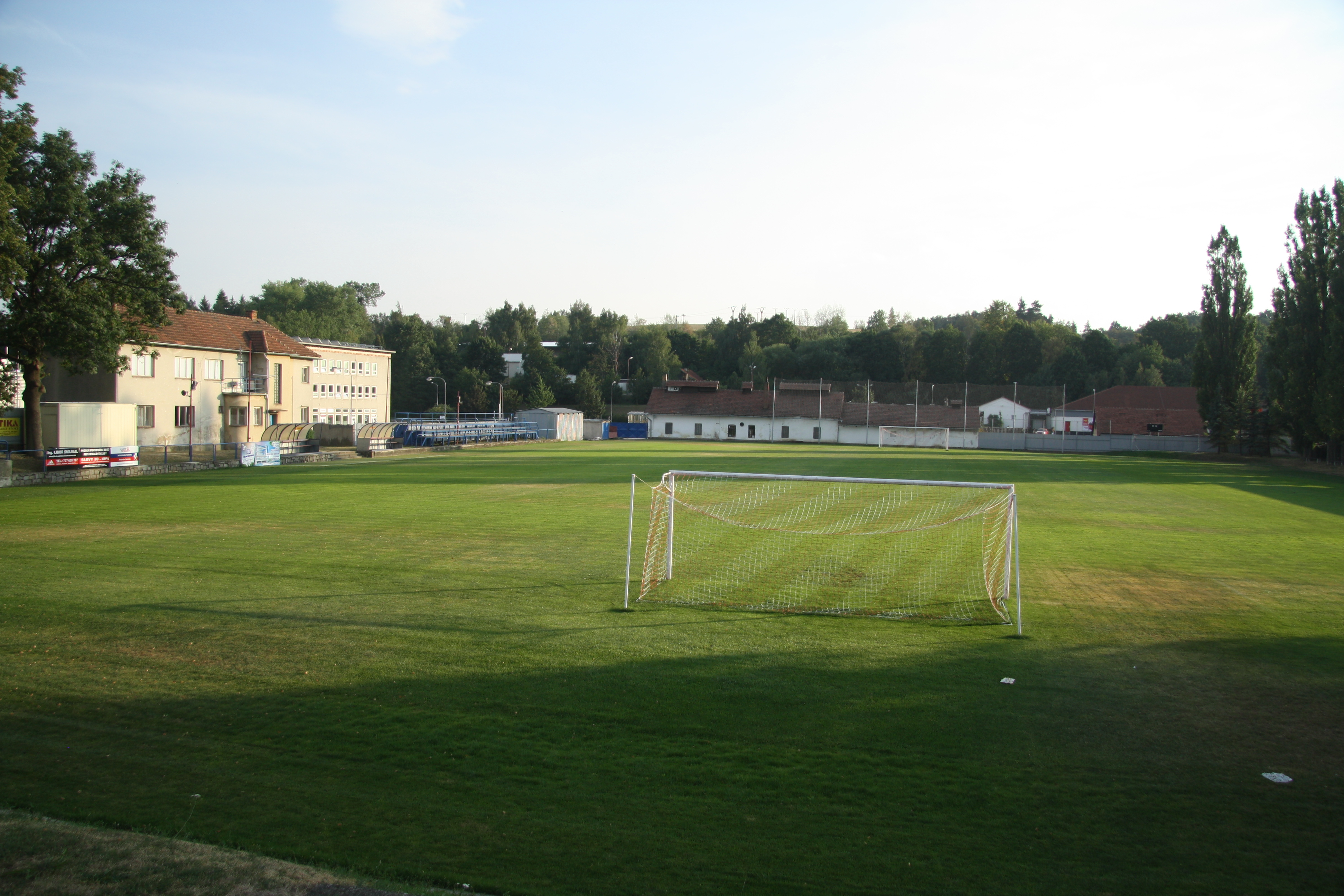 Football field of FC Velké Meziříčí in Velké Meziříčí, Žďár nad Sázavou District.